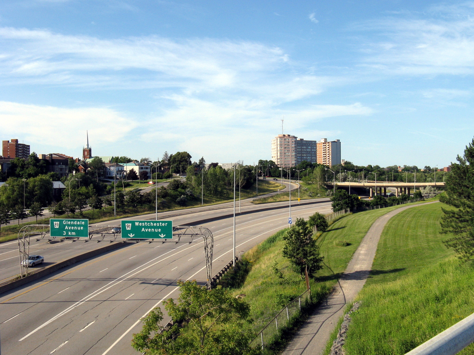 Highway 406 in St. Catharines, Ontario. Taken from Westchester Avenue overpass.